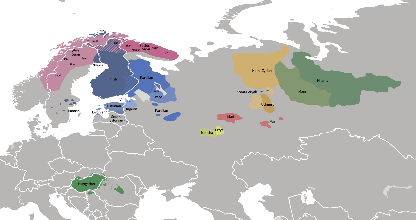 A map showing the approximate distribution of Finno-Ugric Languages.